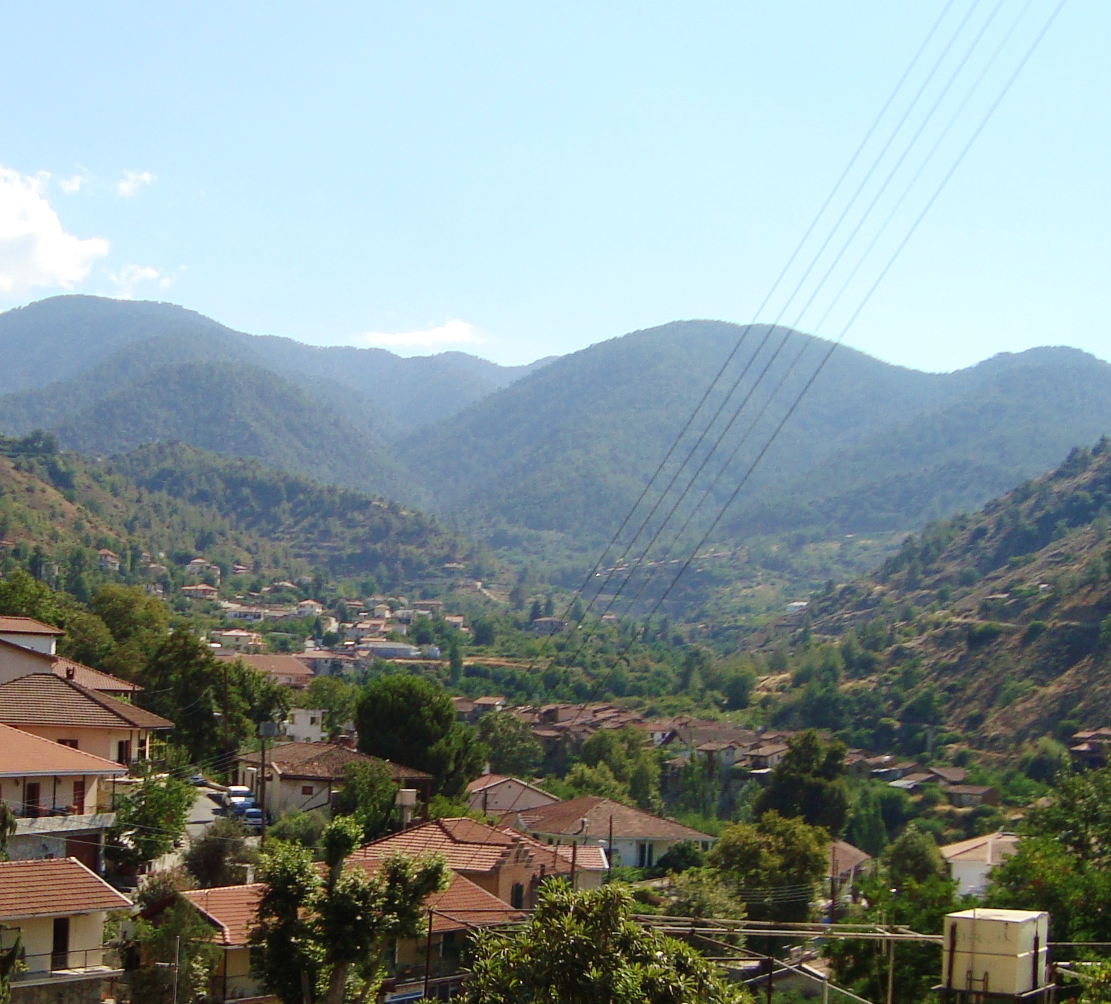 View of Kakopetria village and Troodos Mountains in the background Republic of Cyprus